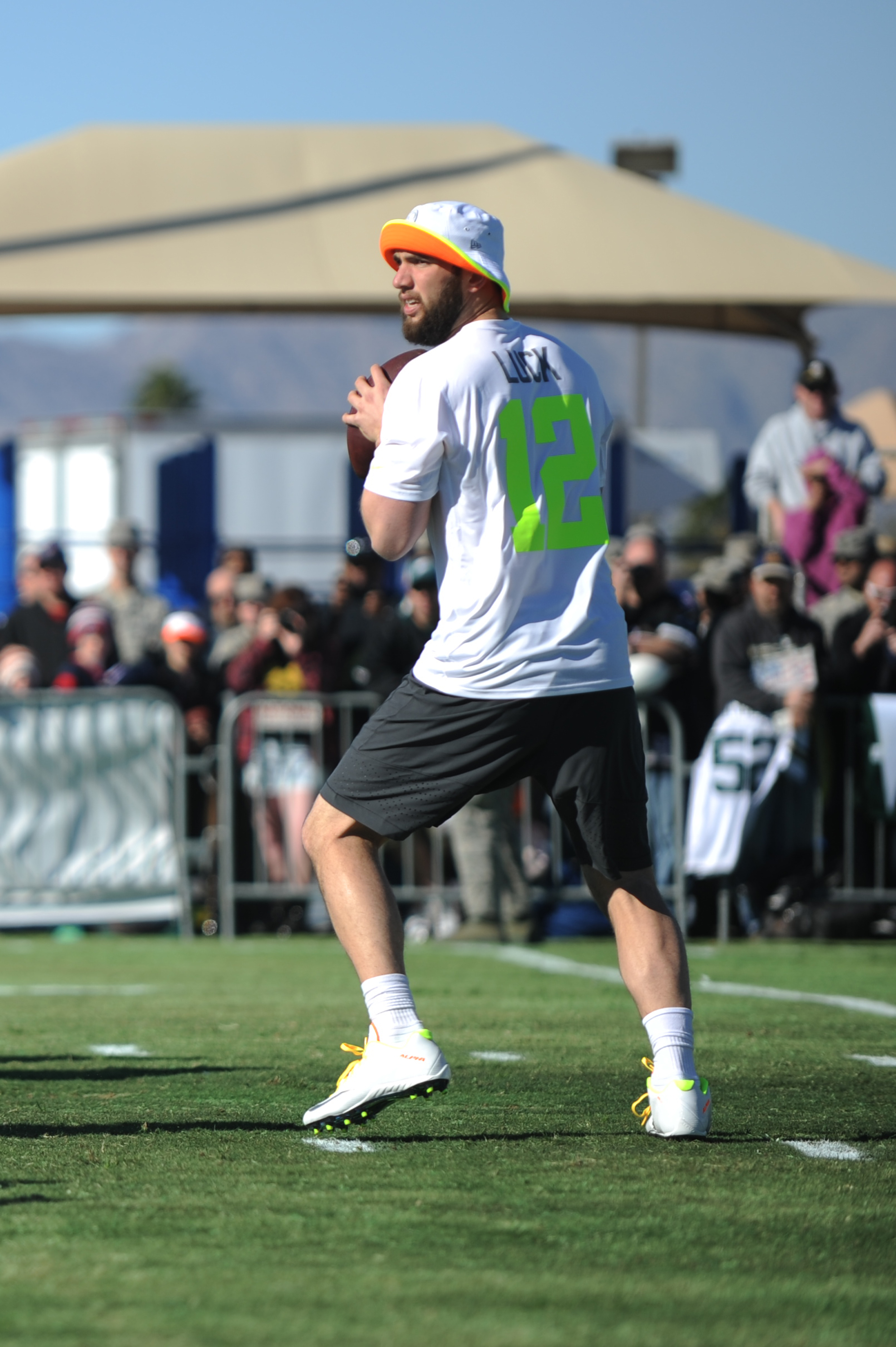 Andrew Luck, Indianapolis Colts quarterback assigned to Pro Bowl Team Carter, drops back to pass during a practice game at Luke Air Force Base, Ariz., Jan. 22, 2015. The Pro Bowl players were practicing on base to show support for Airmen and to prepare for the game on Sunday. (U.S. Air Force photo by Staff Sgt. Staci Miller)